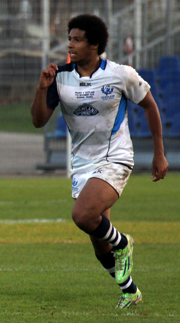 Oscar Thomas